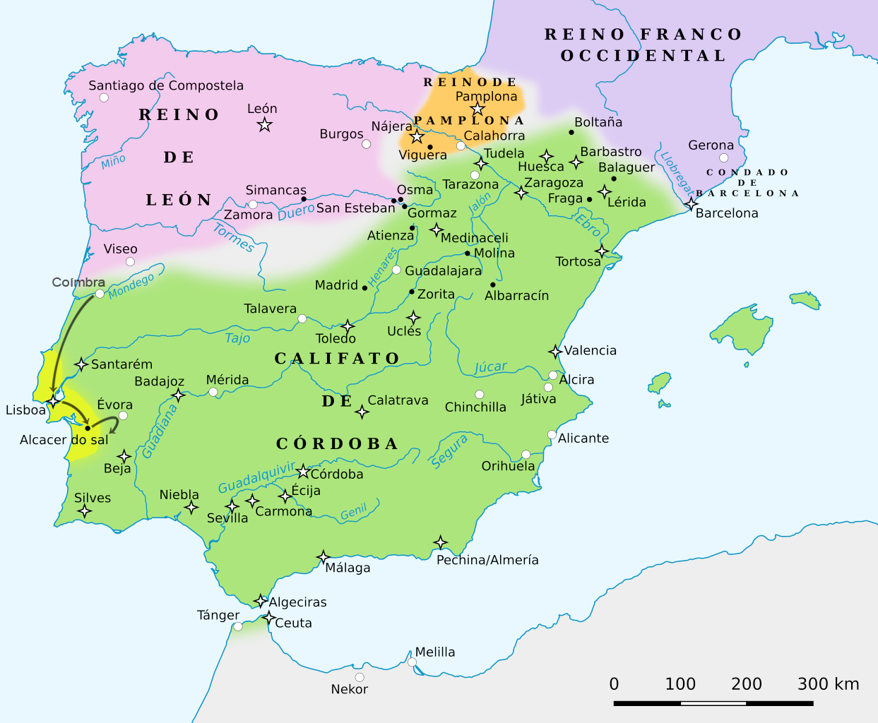 Autonomous region of the Banū Dānis tribe within the Emirate/Caliphate of Cordova around 930 yellow: the Banū Dānis of Alcácer do Sal until 888-929 (according to Atlas do Sudoeste Português) green: the caliphate (until 929: emirate) of Cordoba 931-939